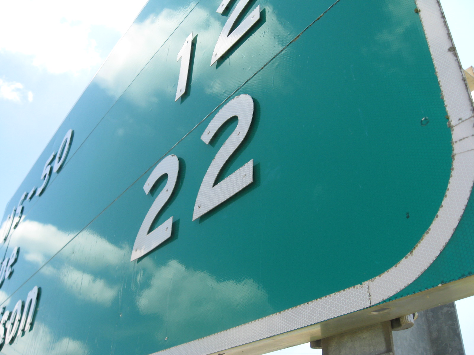 A close-up of a road sign along K-99 in Emporia, Kansas, USA. Most larger signs manufactured by the Kansas Department of Transportation feature demountable copy, meaning the letters and graphics can be removed from the sign as needed.